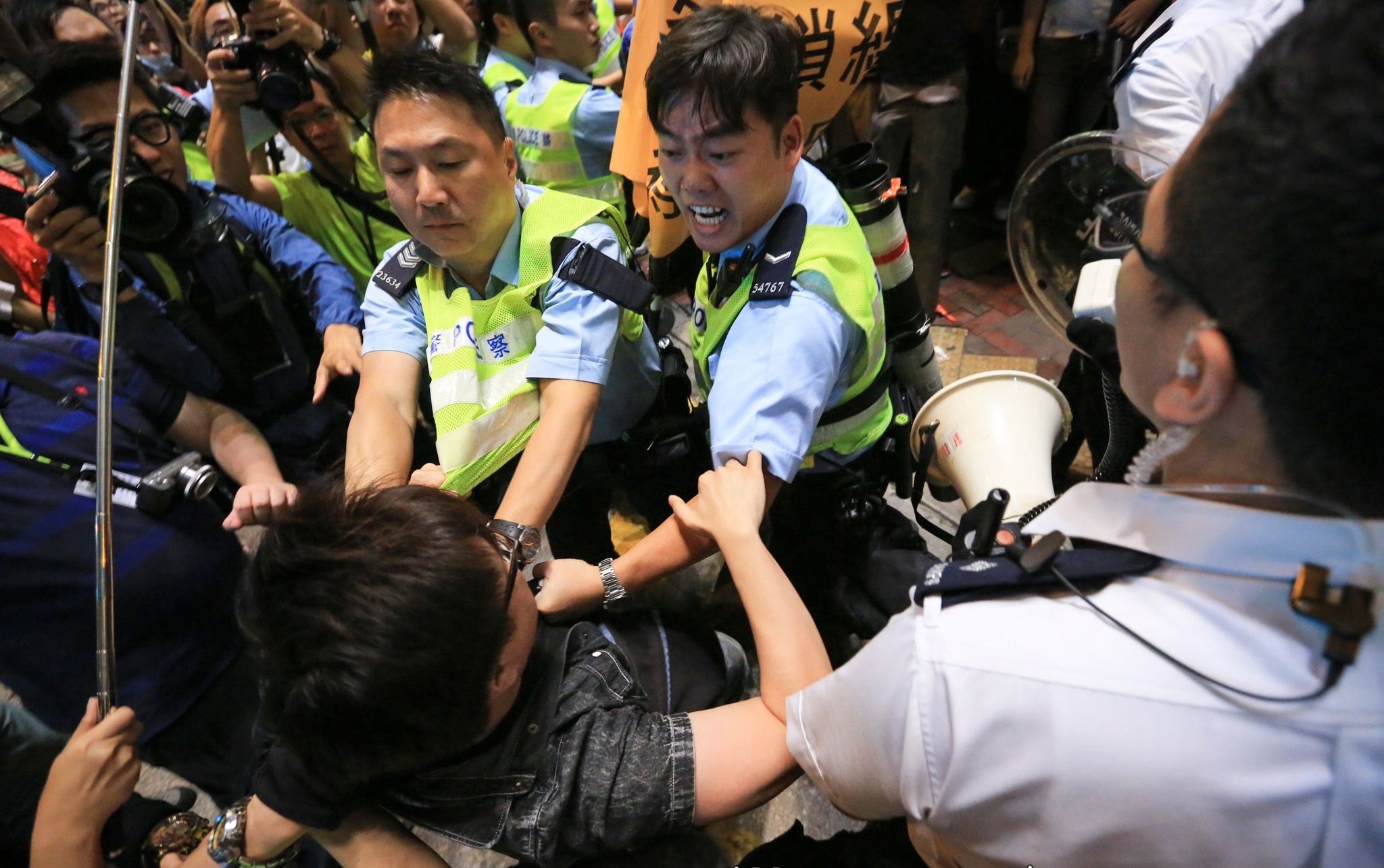 Police force in Mong Kok, Hong Kong